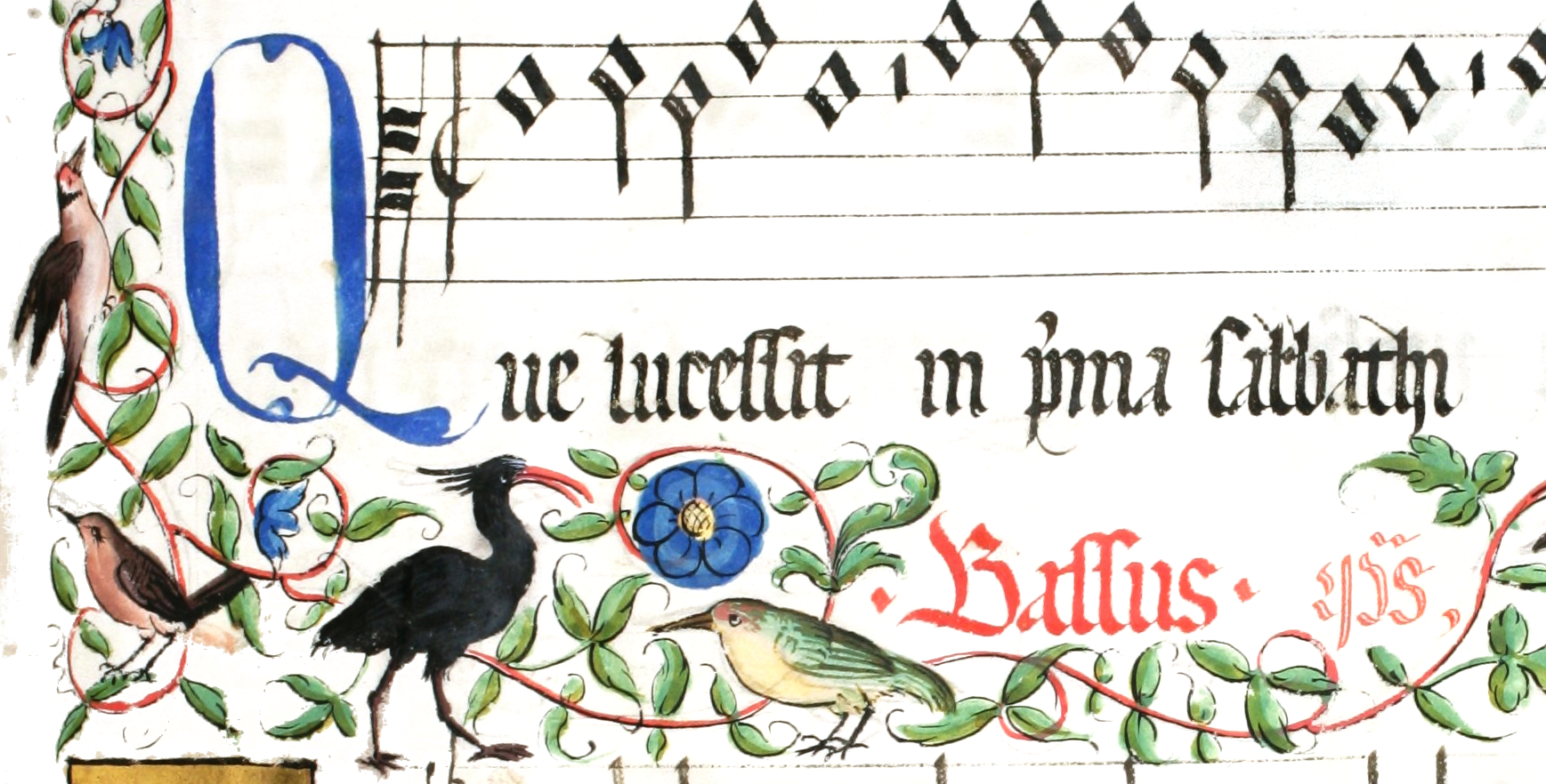 St Gall manuscript with northern Bald Ibis depicted